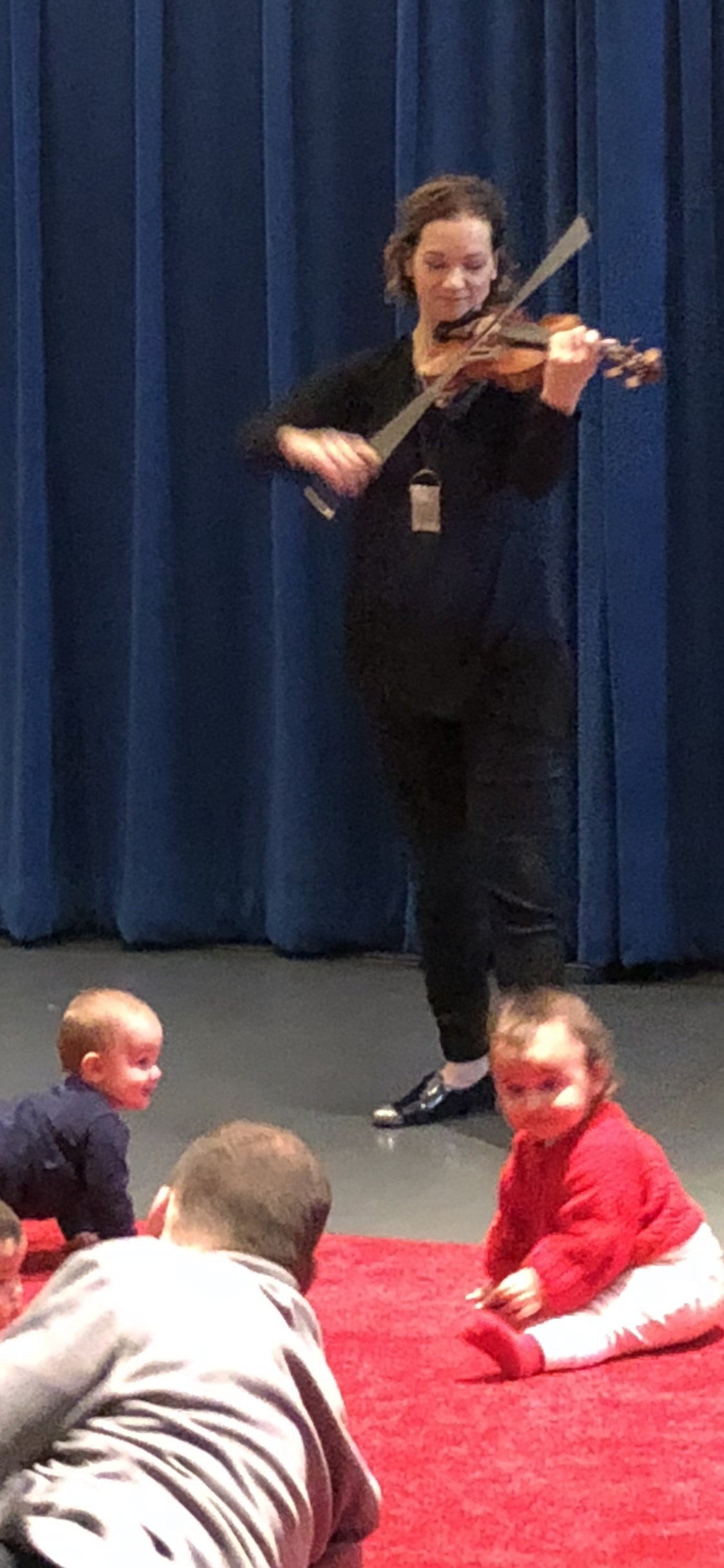 American violinist Hilary Hahn performs Bach for children and their parents during one of her Bring Your Own Baby concerts. New York, NY, October of 2018.